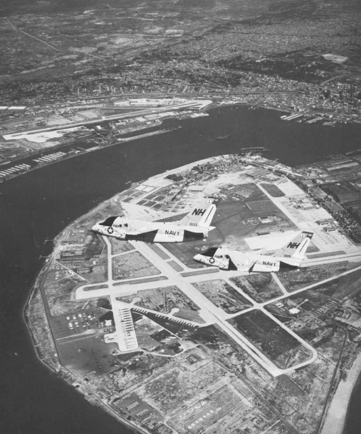 Two U.S. Navy Lockheed S-3A Viking aircraft of anti-submarine squadron VS-33 Screwbirds, assigned to Carrier Air Wing 11 (CVW-11), fly over the Naval Air Station North Island, San Diego, California (USA), in 1977.